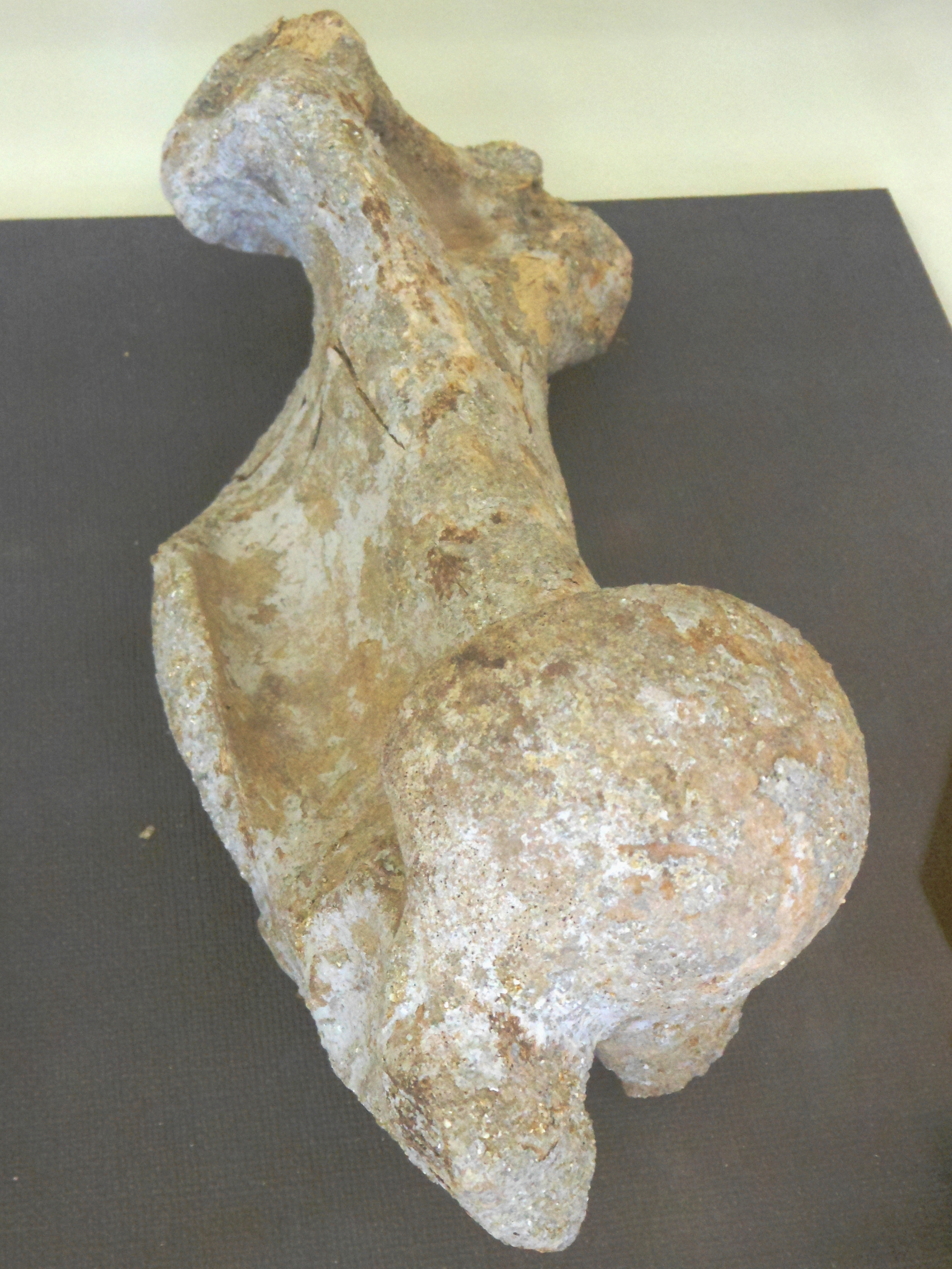 A bone of sea lion, 8,000 years ago, excavated at Higashimyō Site. Type:maxilla(upper jawbone).